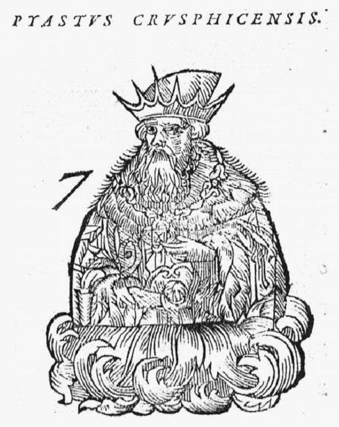 A picture of Piast, legendary founder of Piast dynasty.